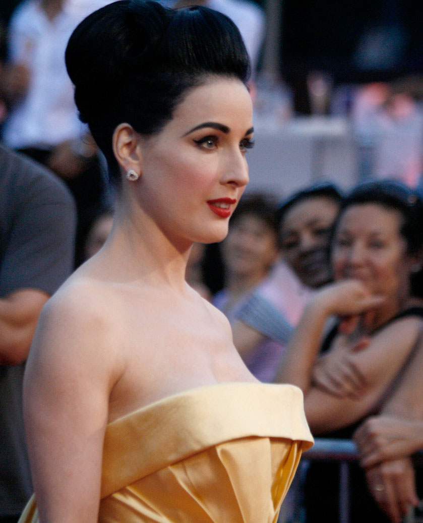 Dita von Teese on the red carpet of the Life Ball 2010.